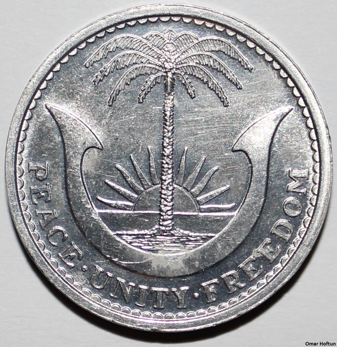 Biafran 2½ shilling coin from 1969 of aluminium, obverse.